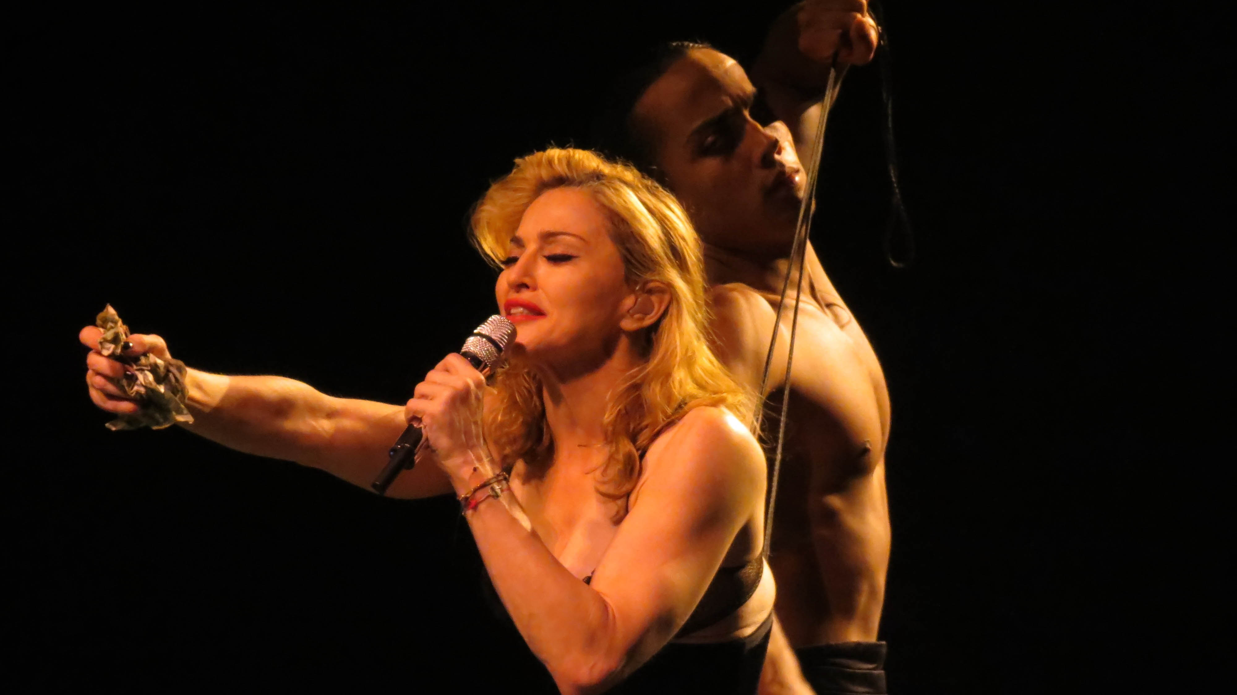 Madonna MDNA Tour 2012 at Key Arena in Seattle.